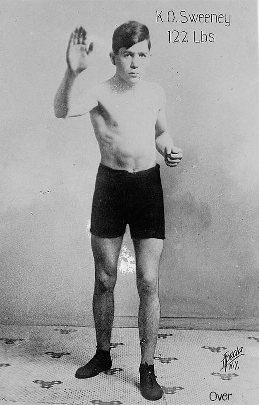 K.O. Sweeney 1 negative : glass ; 5 x 7 in. or smaller. Notes: Title from unverified data provided by the Bain News Service on the negatives or caption cards. Photo shows Bob K.O. Sweeney, boxer, probably early in his career, 1911 or 1912. (Source: Flickr Commons project, 2008. Forms part of: George Grantham Bain Collection .Library of Congress.. Format: Glass negatives. Repository: Library of Congress, Prints and Photographs Division, Washington, D.C. 20540 USA, General information about the Bain Collection is available at Persistent URL: Call Number: LC-B2- 2470-1